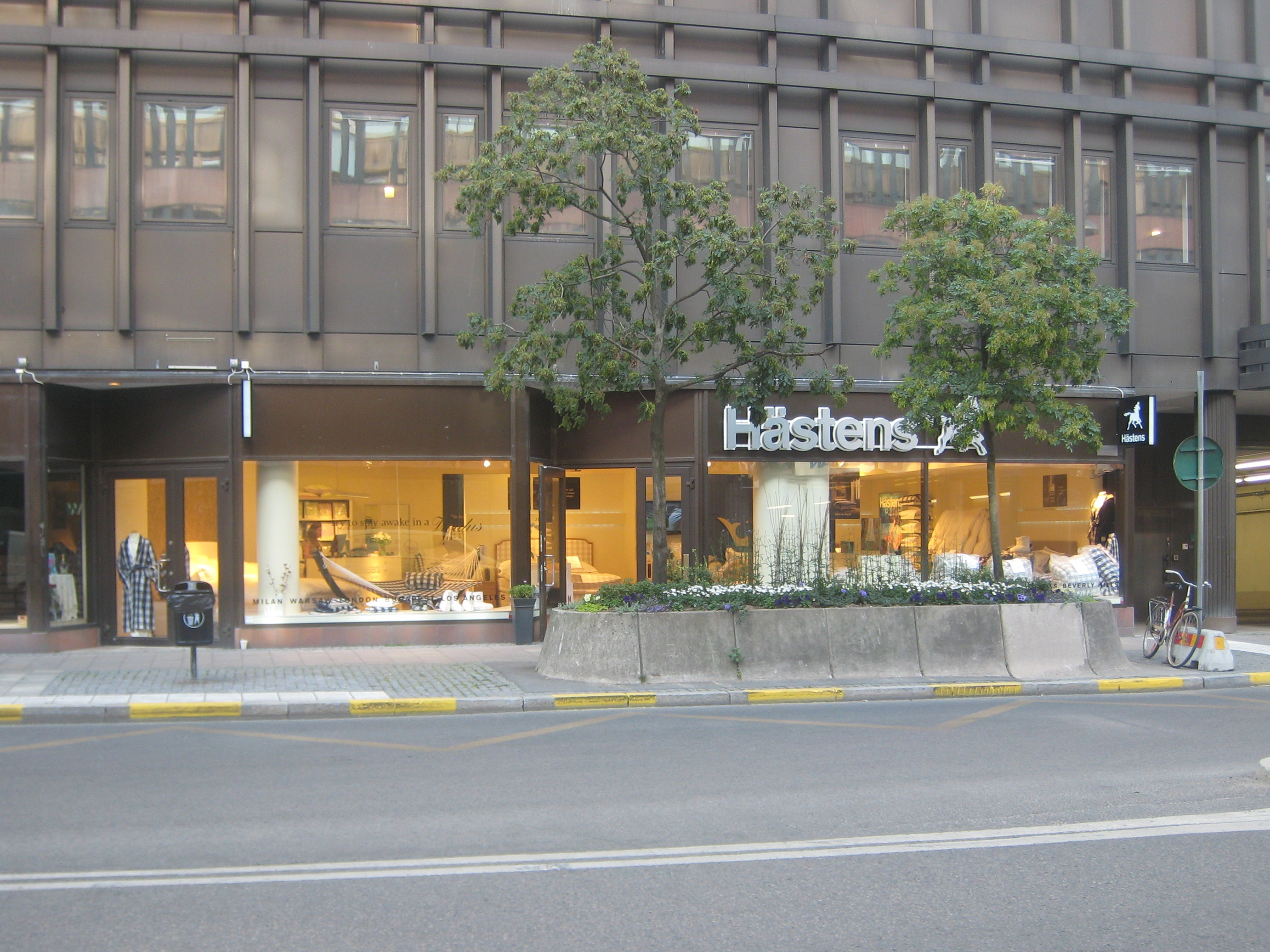 Hästenbutik på regeringsgatan i Stockholm.